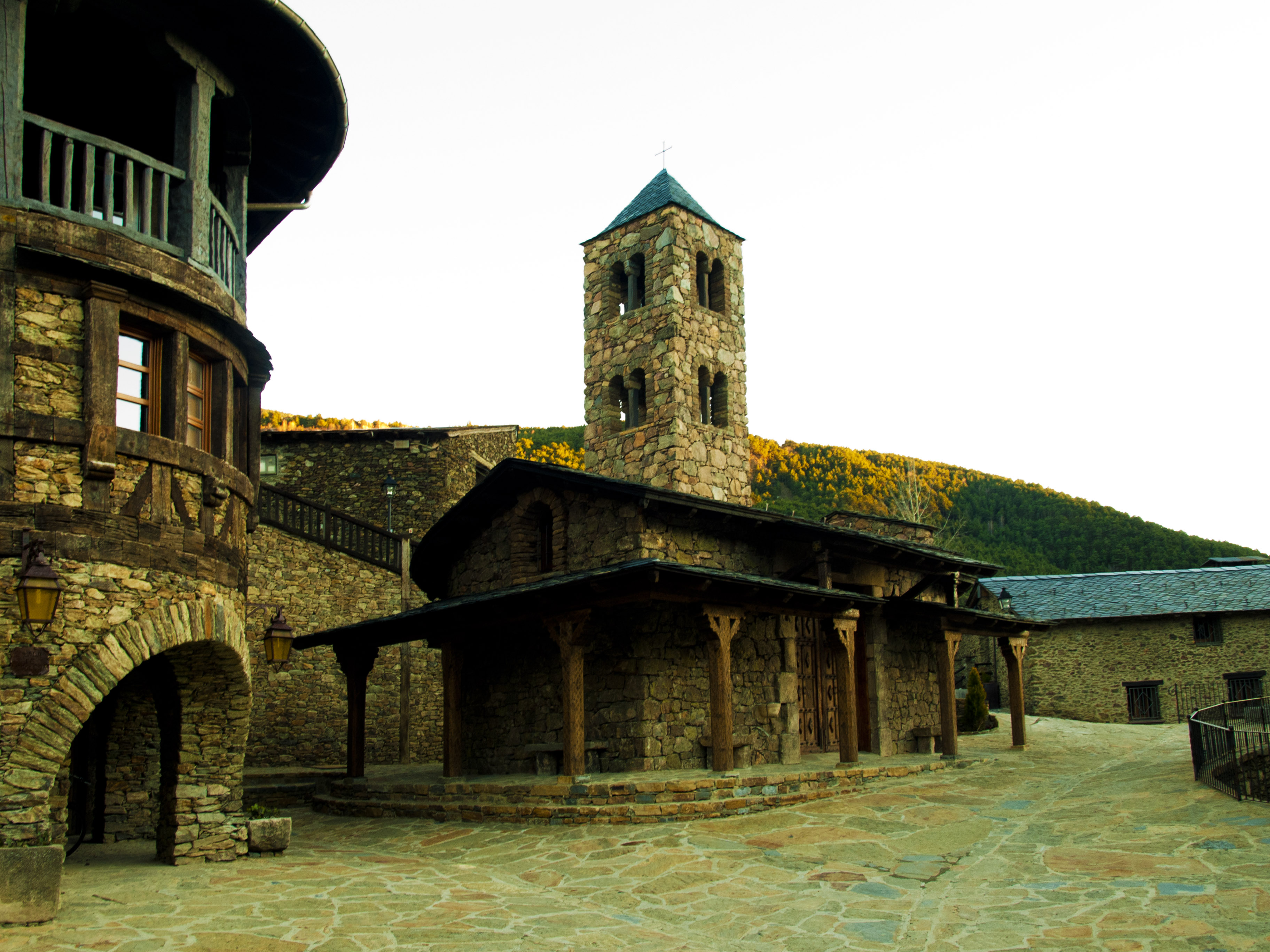 Auvinyà, Sant Julià de Lòria (Andorra)